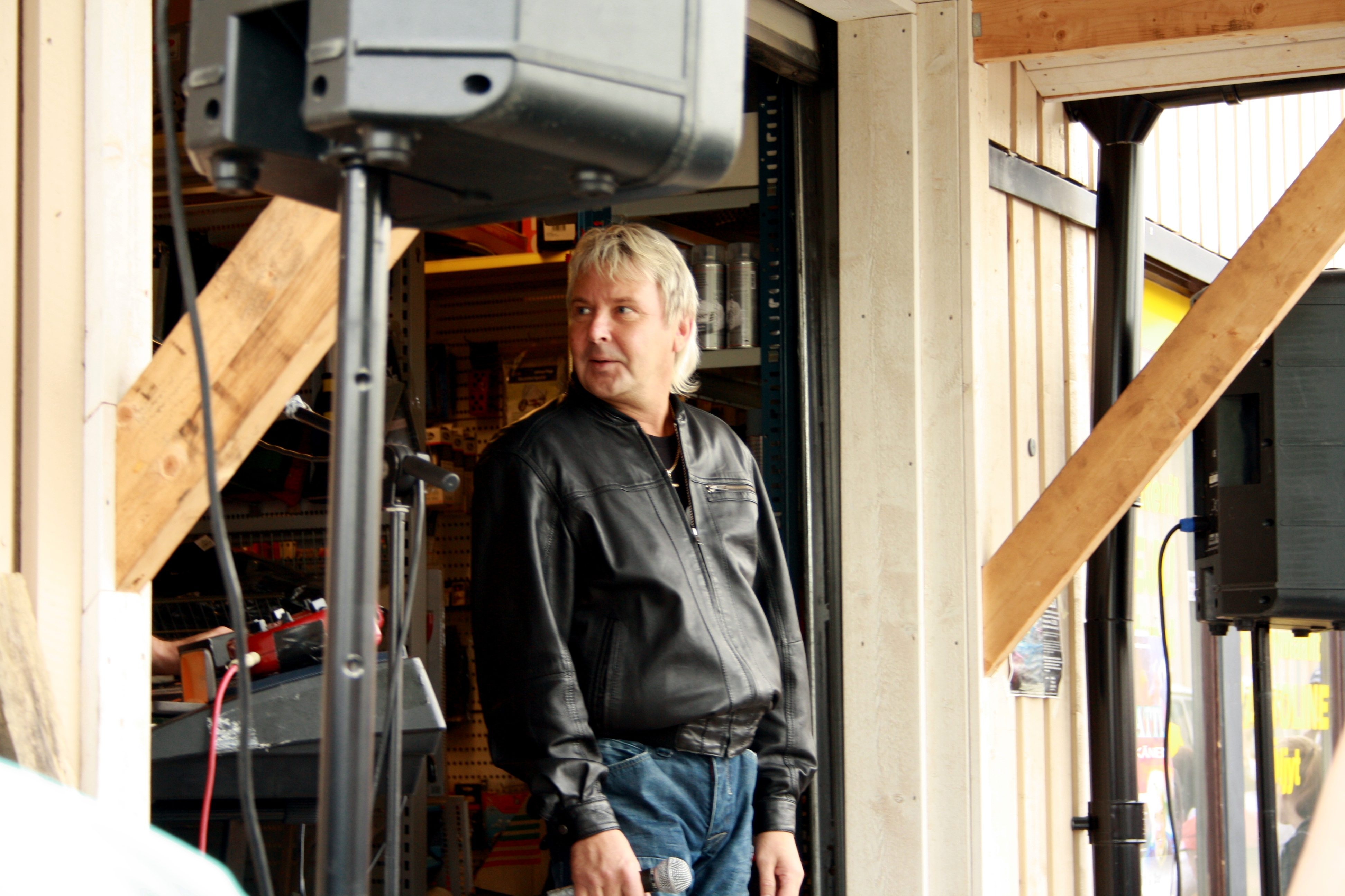 Matti Nykänen singing and joking with his guitarist during a performance held at a car repair parts shop in Kirkkonummi, on the 19th of June 2010.